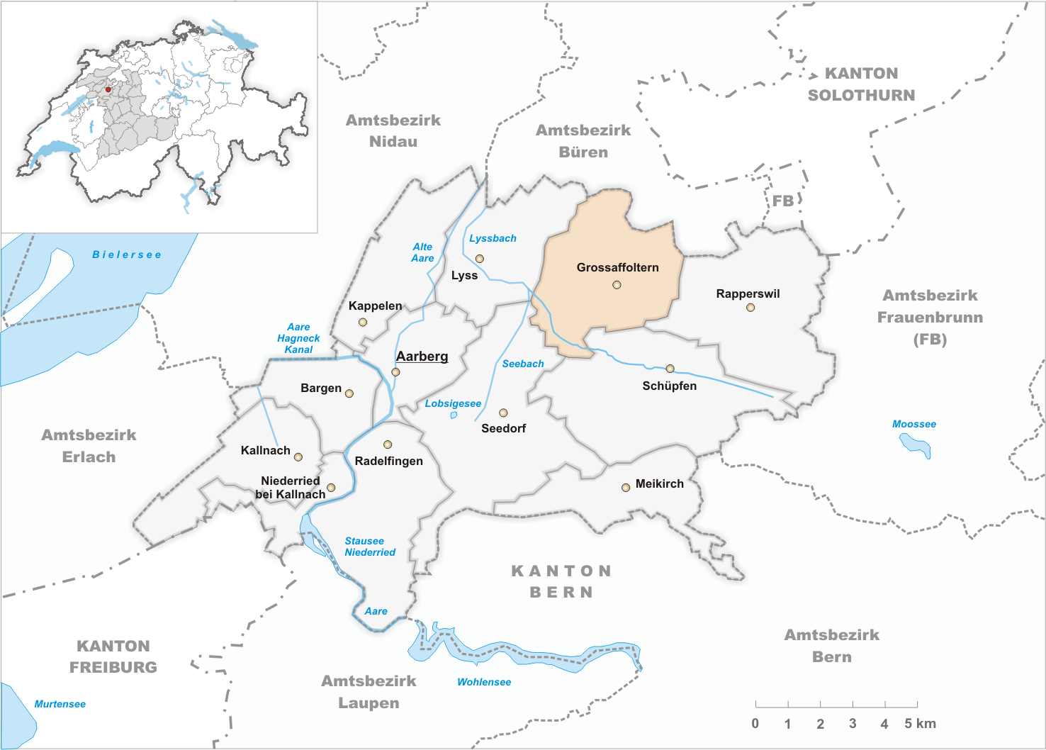 Municipality Grossaffoltern